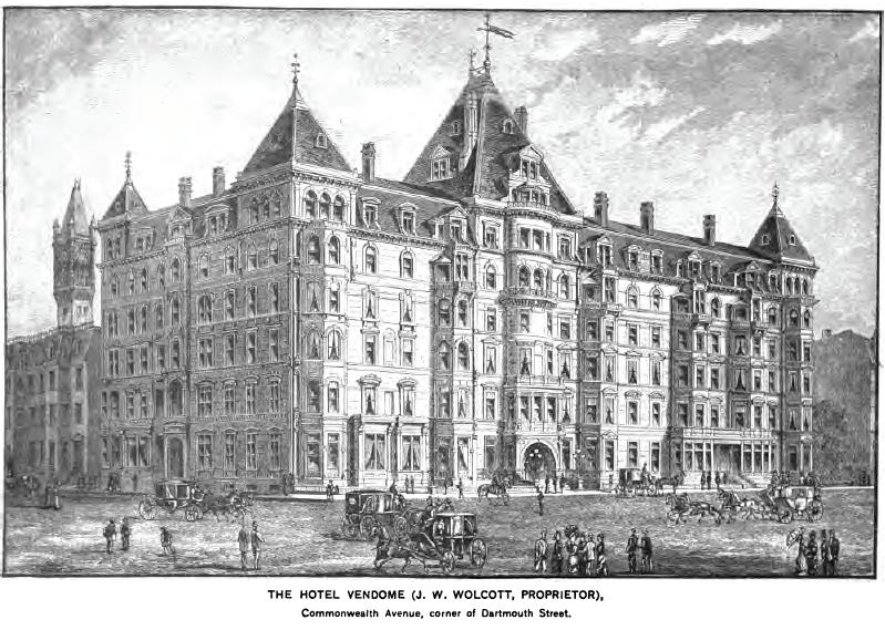 Etching of the Hotel Vendome, Boston, as it appeared circa 1881